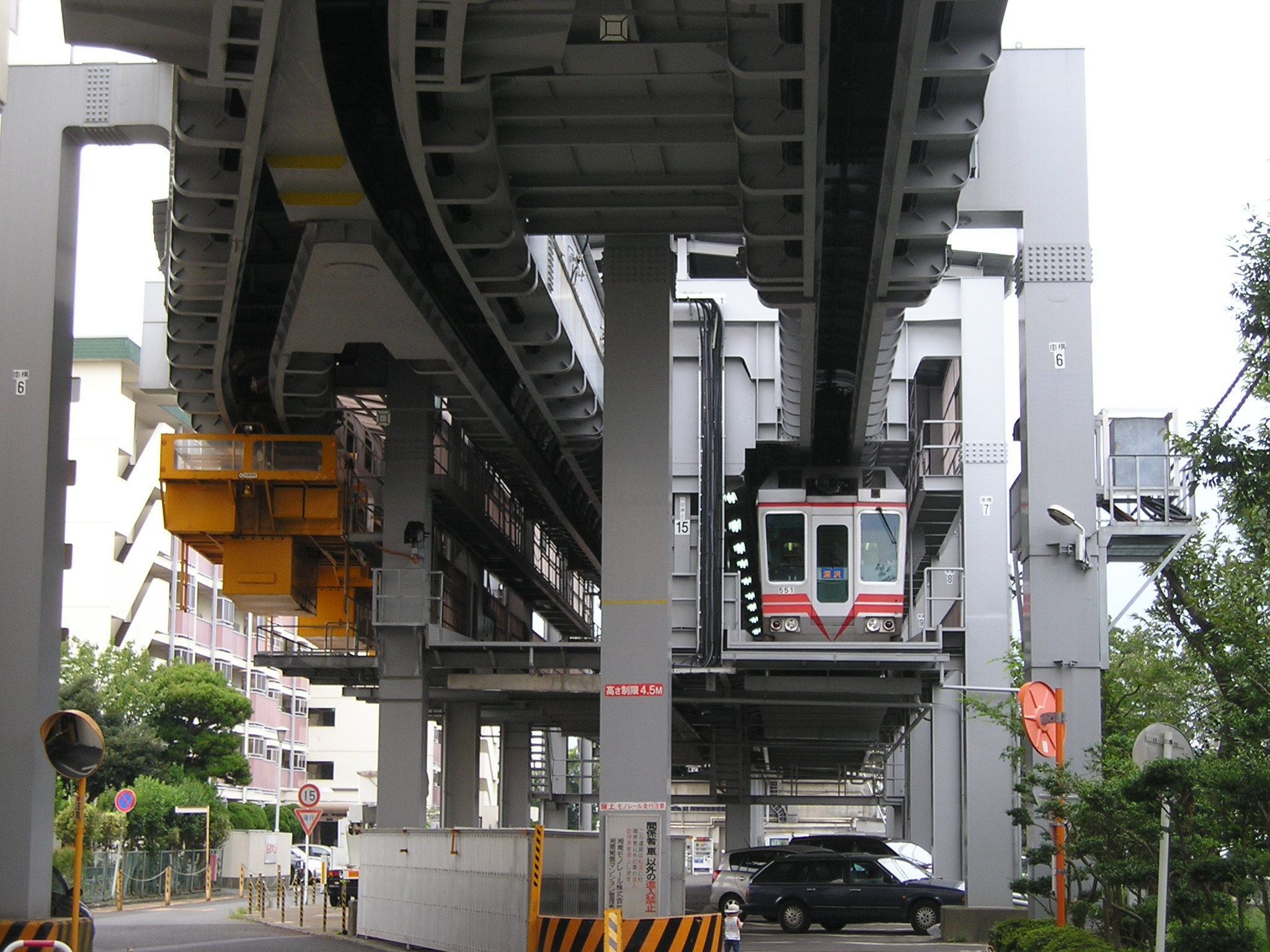 Shonan monorail base.(kamakura fukasawa)